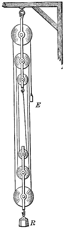 Block and tackle with six pulleys.